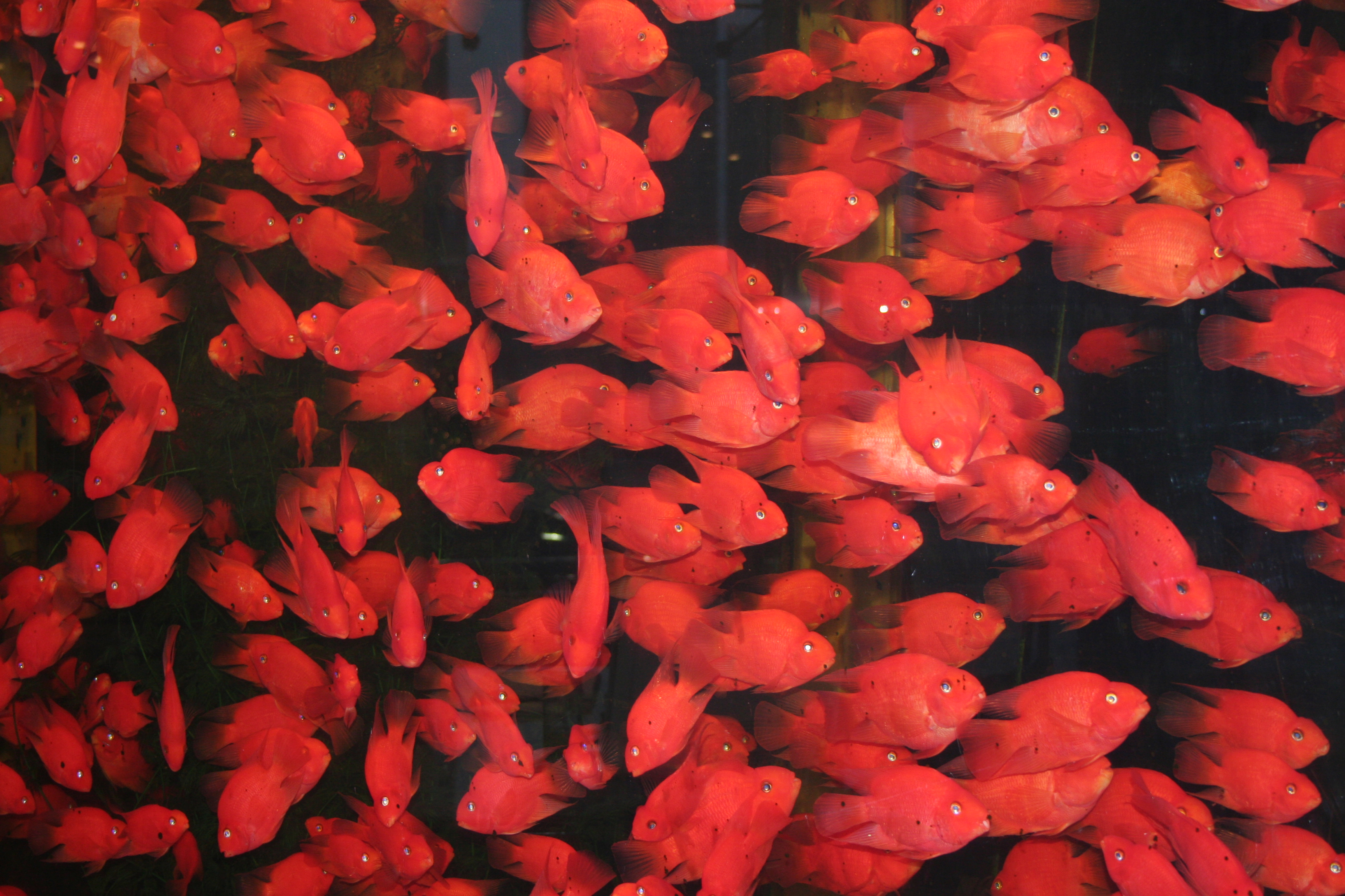 Fish in a tank in the reception area of a hotel in Pudong, Shanghai, China